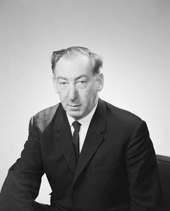 A 1967 black and white portrait of Lionel Murphy, Senator for New South Wales